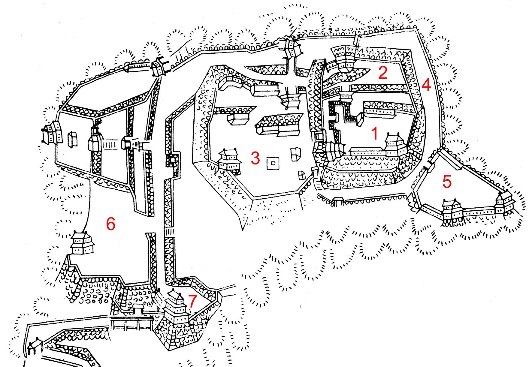 Iwamura Castle after old map